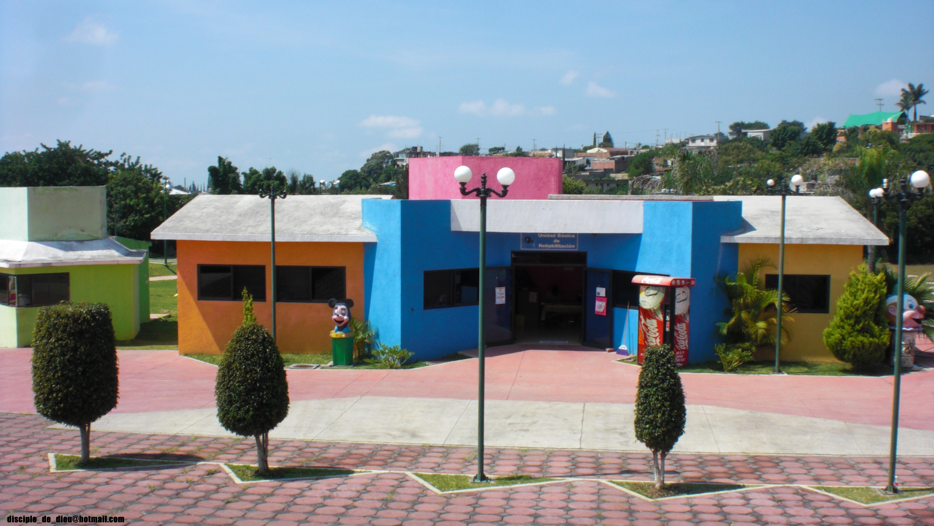 Unidad Basica De Rehabilitacion